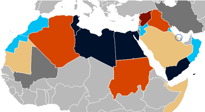 Arab Spring Map updated 2013